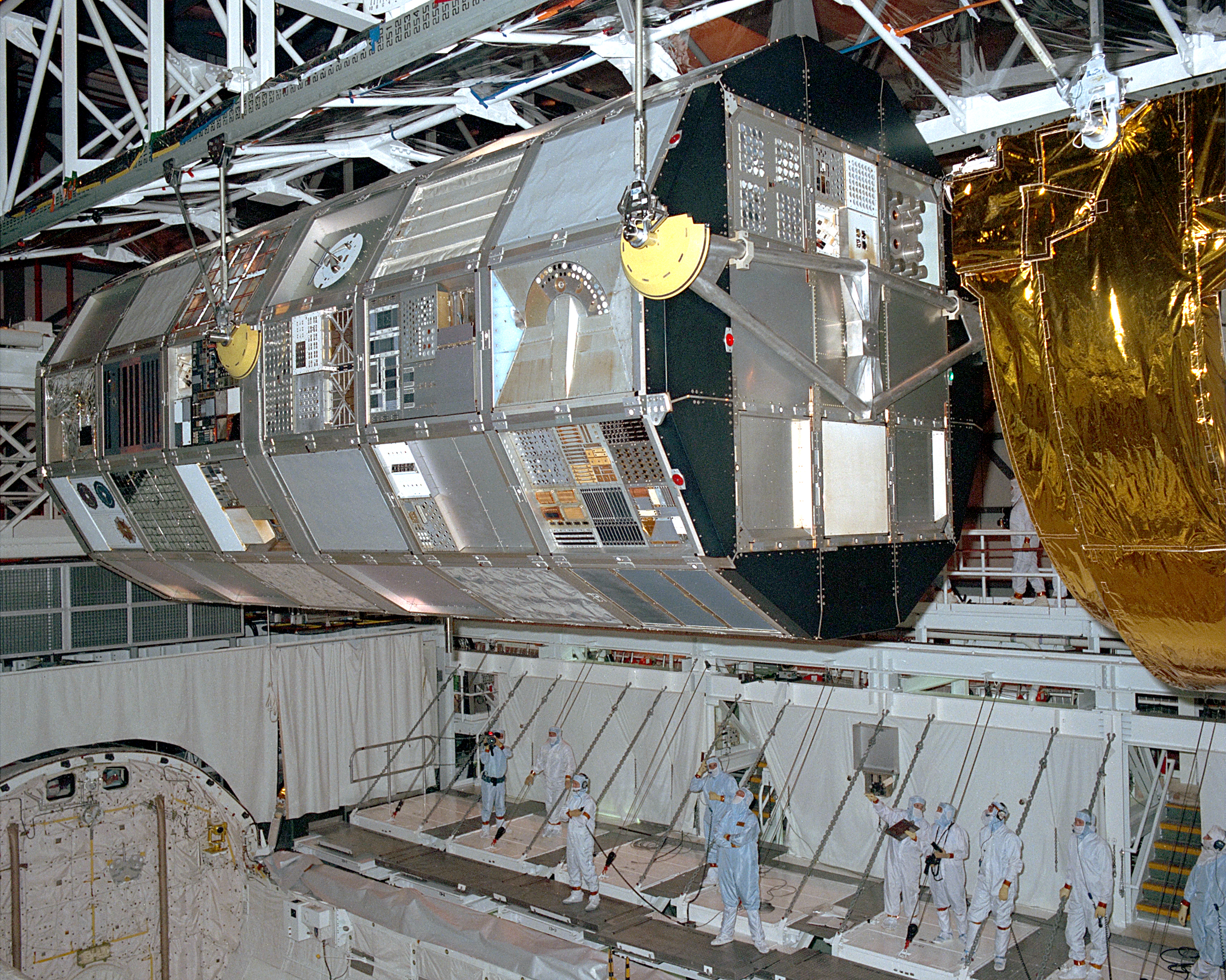 Suspended above the payload bay of the Space Shuttle Columbia, the Long Duration Exposure Facility (LDEF) is monitored by technicians during its move from the Space Shuttle to a transportation canister. LDEF, with 57 experiments, spent almost six years in space before being retrieved by the STS-32 crew in January 1990.